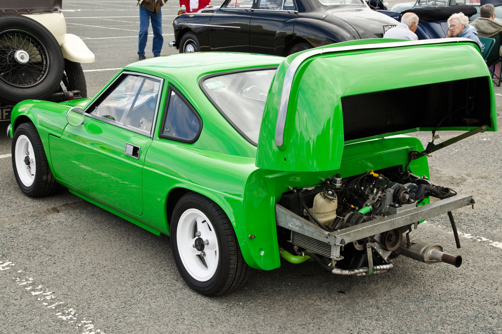 North Cheshire Classic Car Club at Ellsmere Port 11/08/2013